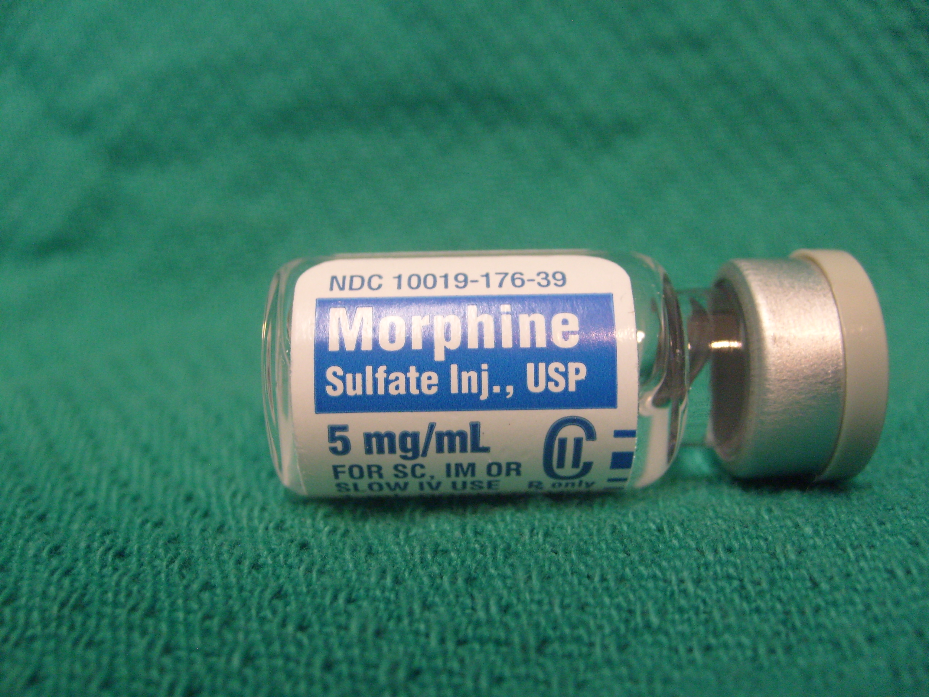 5mg/ml vial of Morphine Sulfate manufactured by Baxter Healthcare.